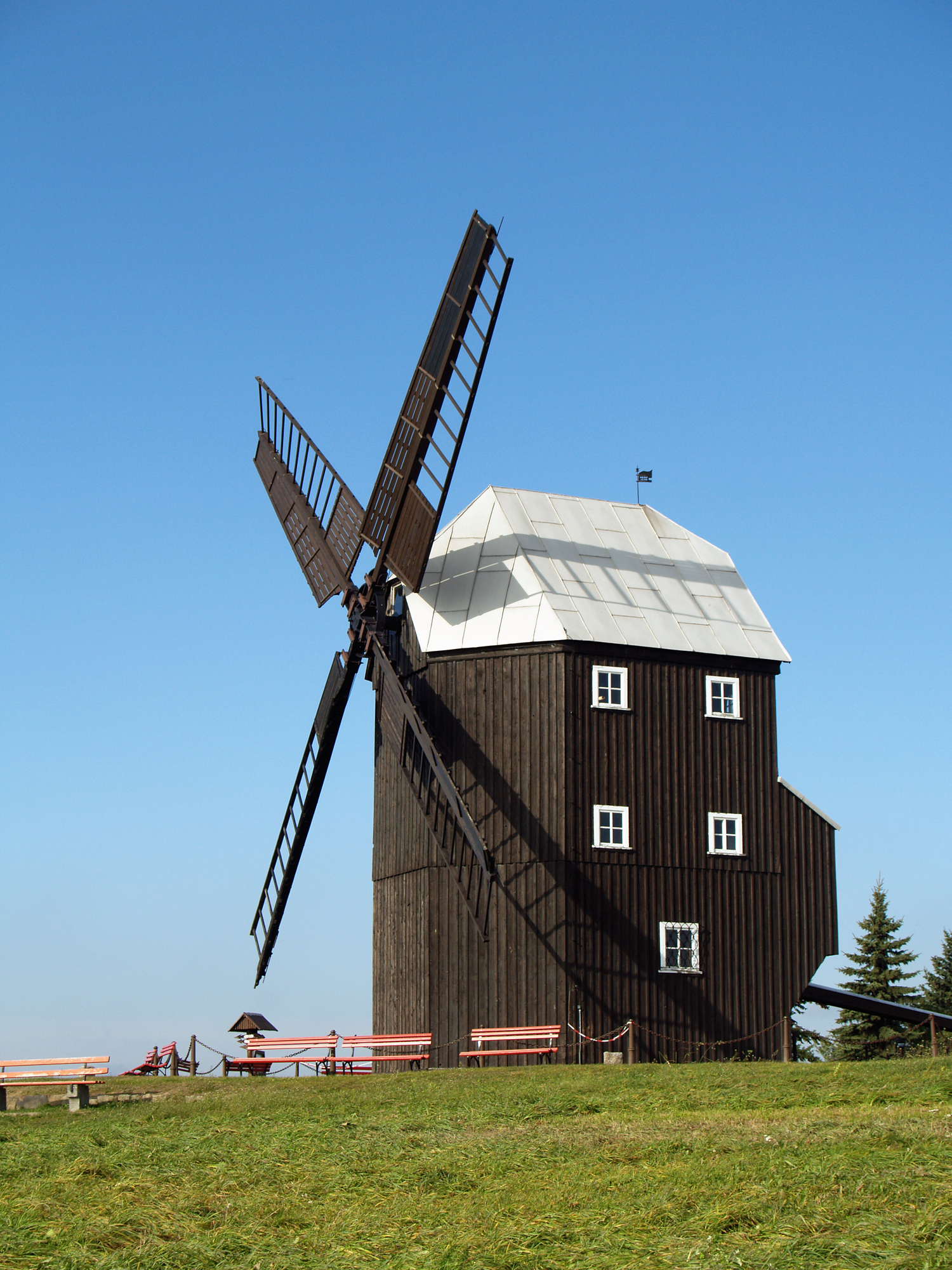 Windmill near Kottmarsdorf, Germany named Burkmühle Kottmarsdorf